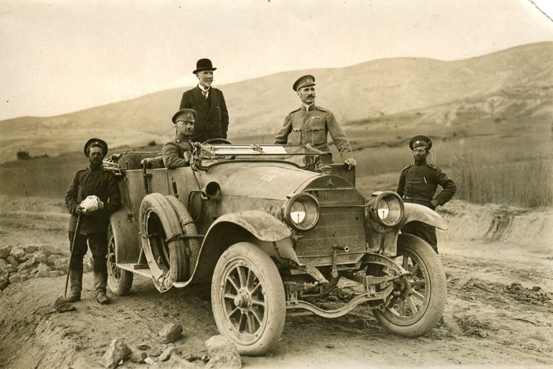 Dimitar Mustakov and Evtim Sprostranov at Trebenishta.